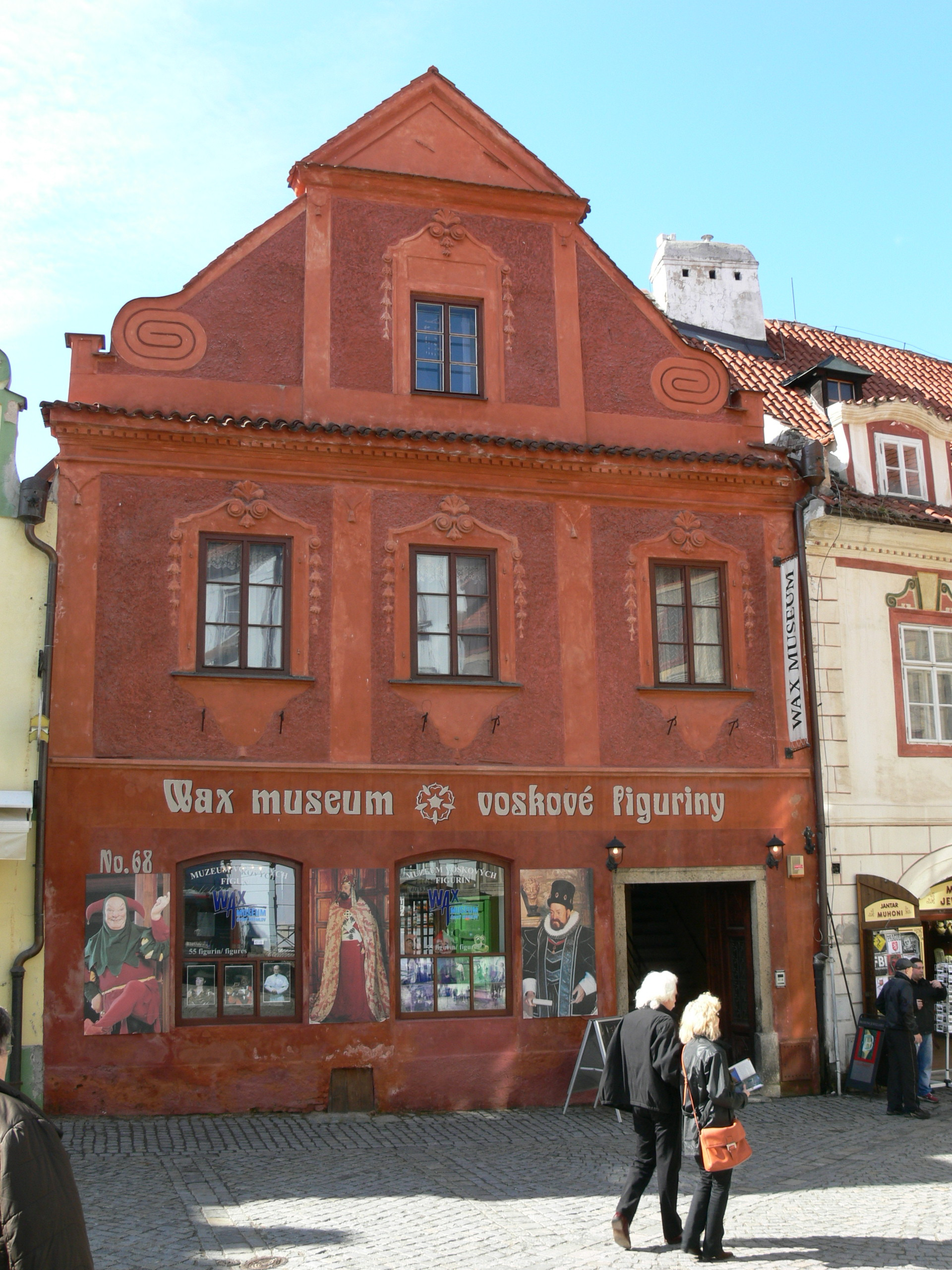 Český Krumlov. Wax museum in the old town.